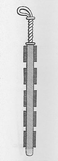 Image of a macuahuitl from an illustration in Richard Burton's The Book of the Sword, 1884. (Note: this is most commonly spelled macuahuitl or maquahuitl)